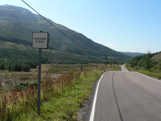 Glen Lean: the B836 A narrow B-road with passing places.